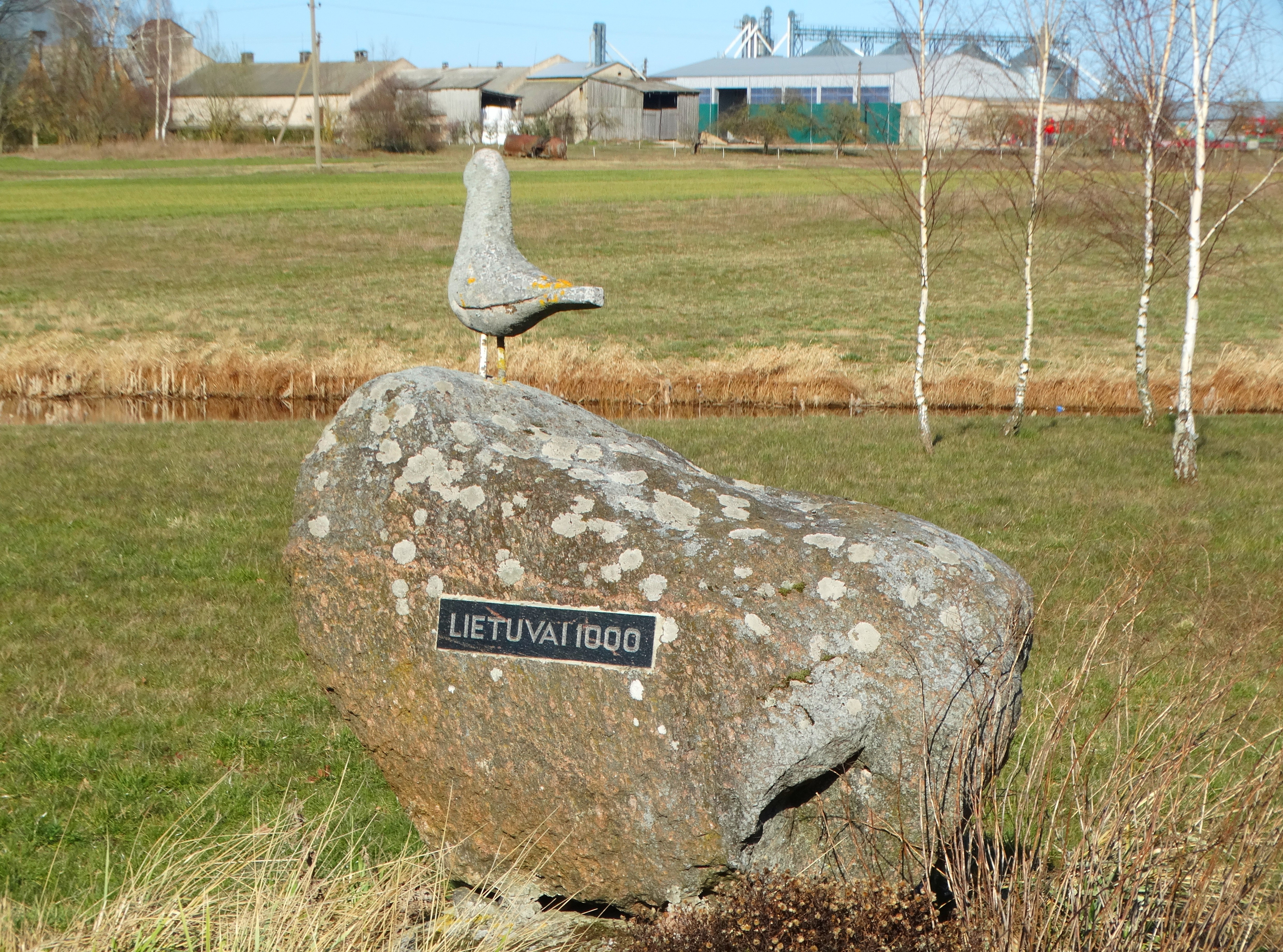 Juodpėnai, millennium stone, Kupiškis district, Lithuania